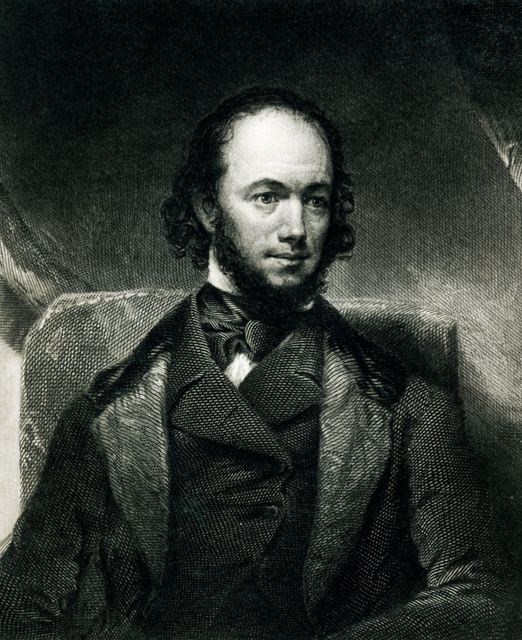 Engraving of American critic, editor, and author Rufus Wilmot Griswold.